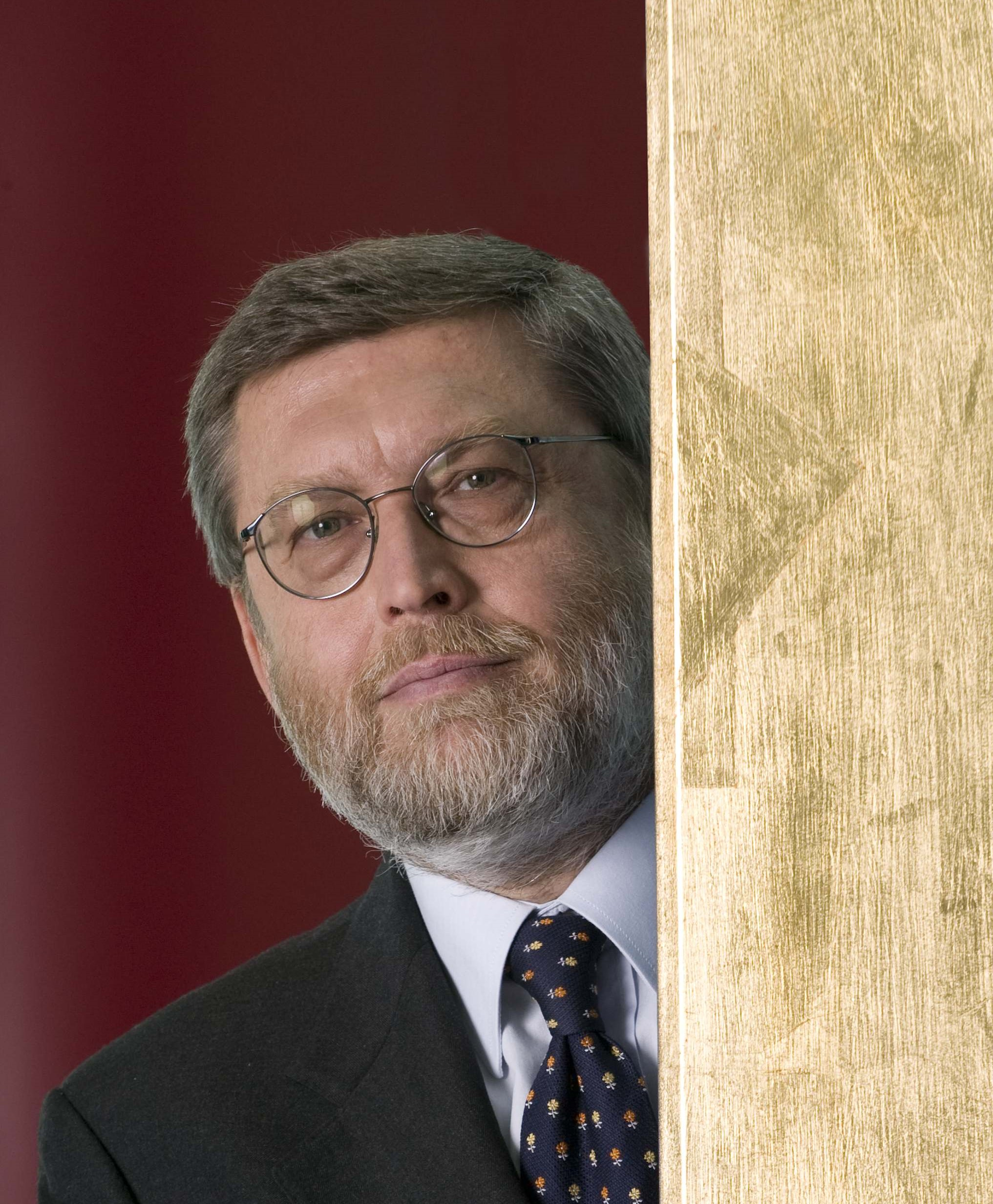 Aldo Audisio